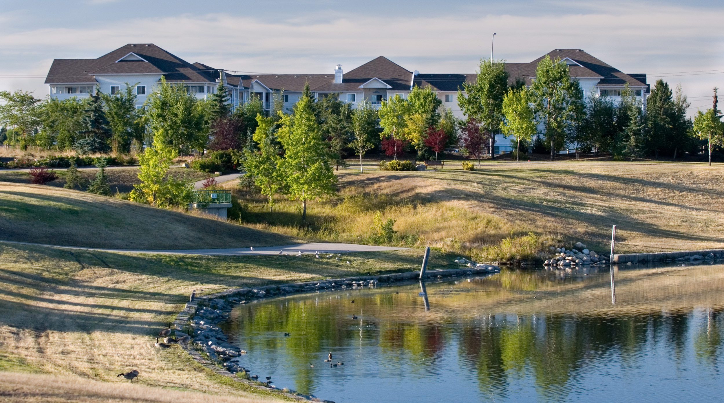 The Point of View apartment/condominium complex in the Red Carpet neighborhood of Calgary, Alberta as seen from Elliston Park. Photo by Chuck Szmurlo taken August 29,2007 with a Nikon D200 and a Nikon 70-200 f2.8 lens with a Rodenstock polarizer.